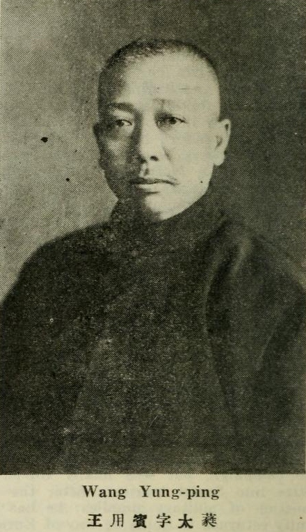 Wang Yongbin,Tairui (1881 - 1944)